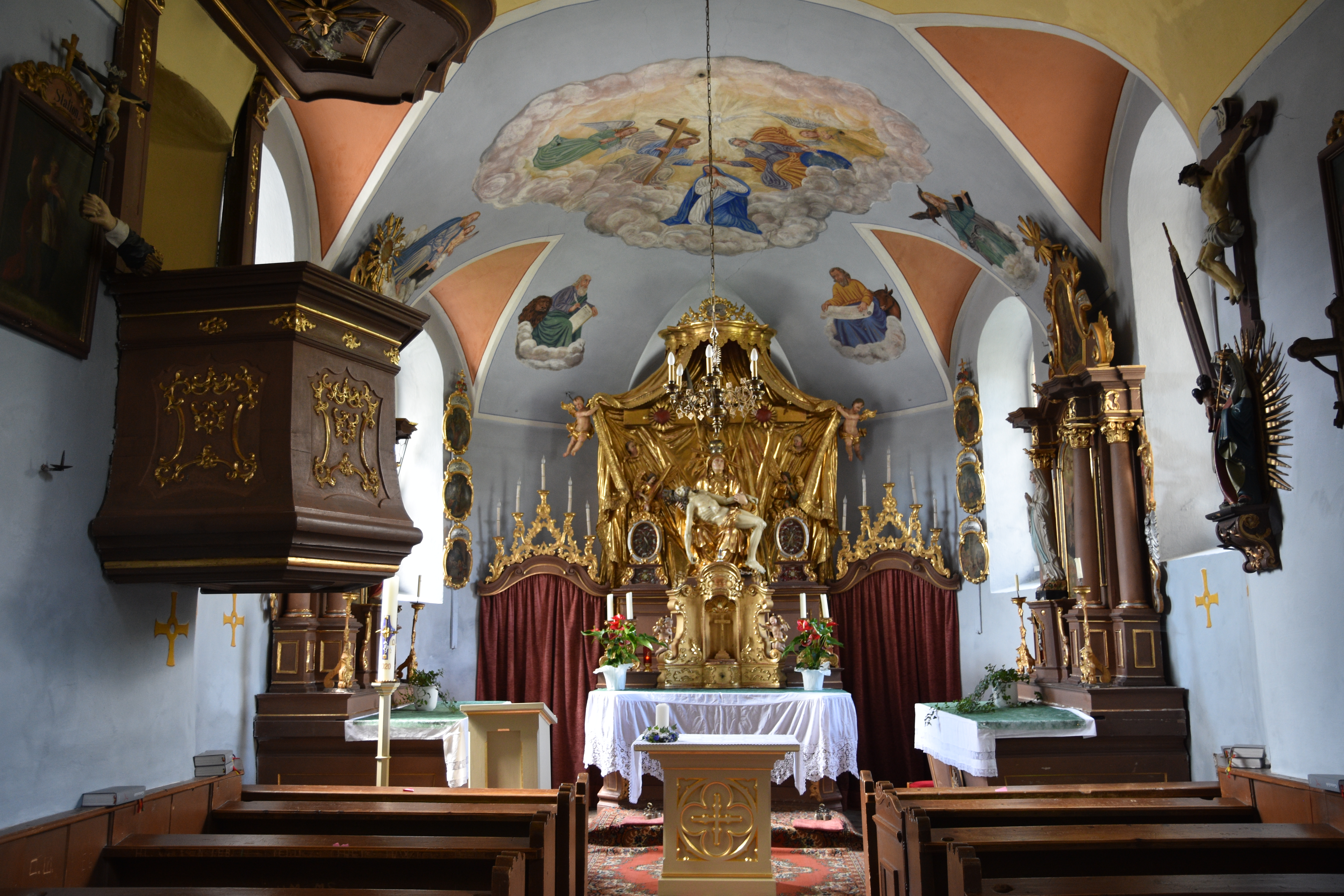 Church Pfarrkirche hl. Kreuz, Tweng Interior